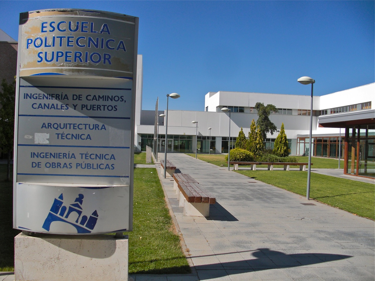 University of Burgos technical school